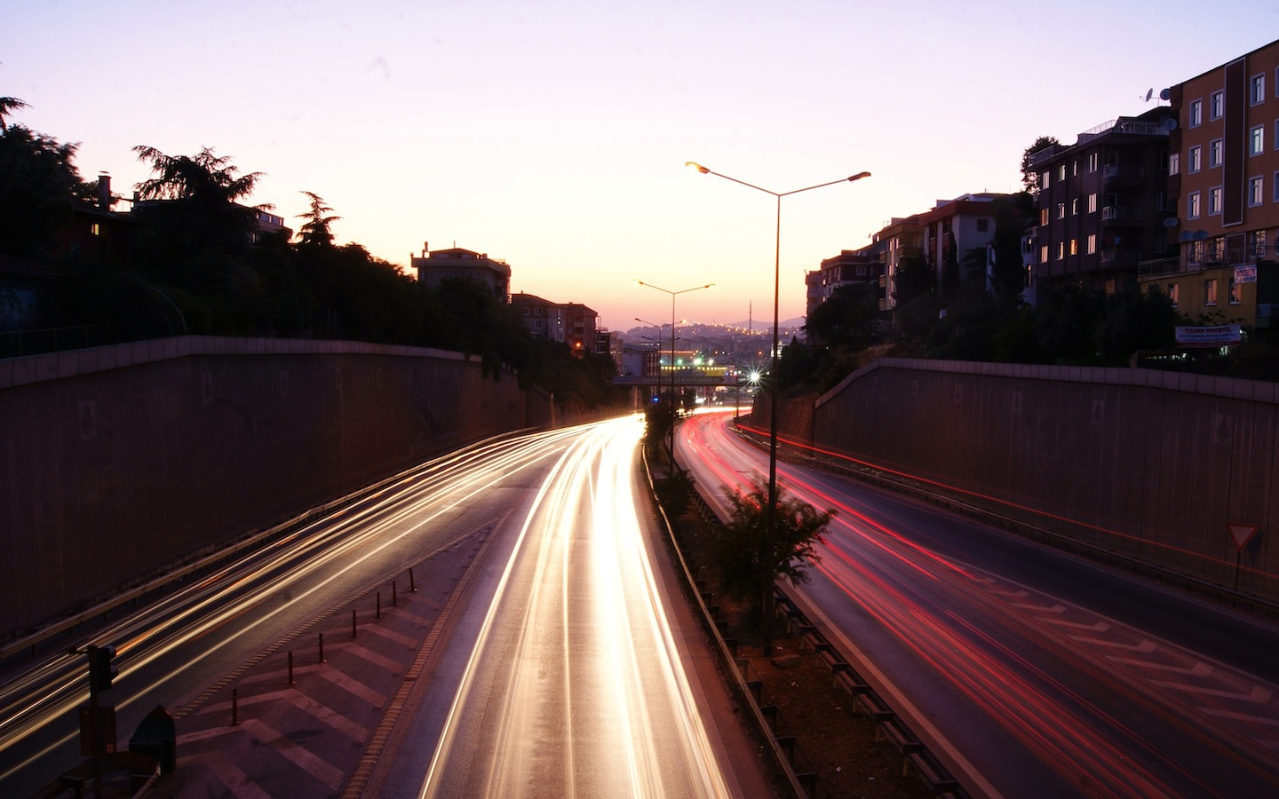 E 5 in Pendik, Istanbul